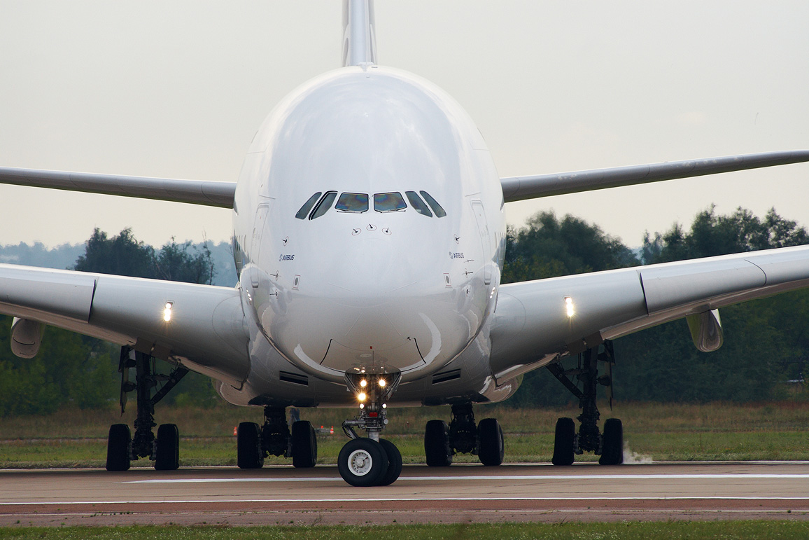 An Airbus A380 turning sharply to enter a runway at the MAKS 2011 event. The rear main landing gear (center) can be seen twisting, and the side main landing gear tires can be seen straining.